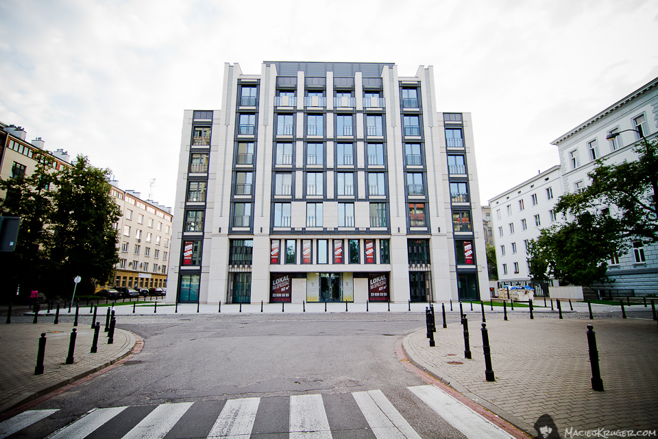 Foksal Residence - view form the Kopernik Street